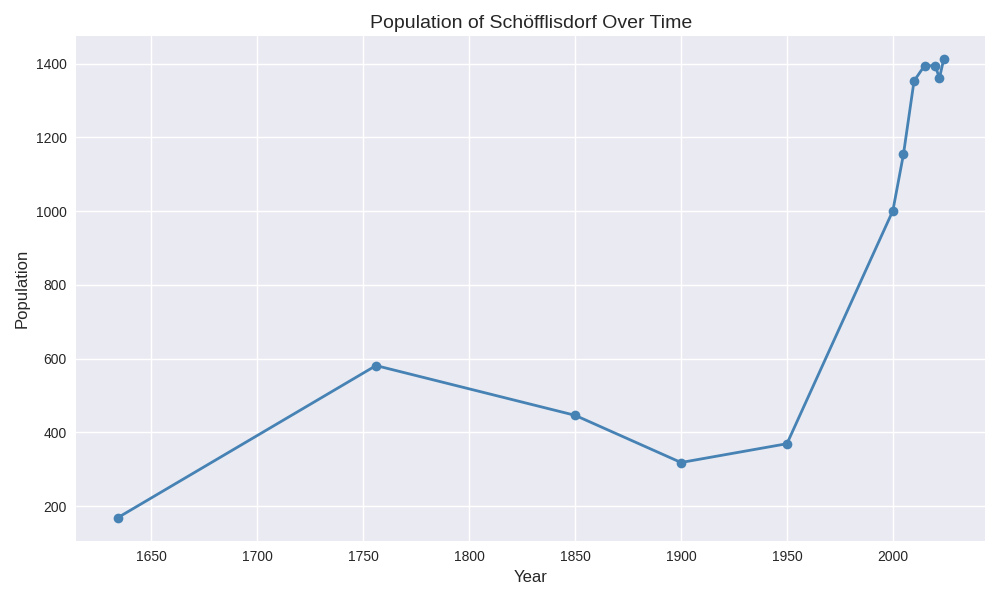 Development of Population of Schoefflisdorf, Kanton Zurich, Switzerland